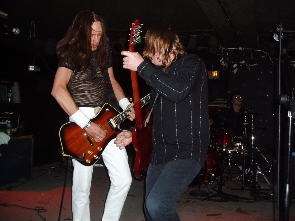 Urge Overkill in concert